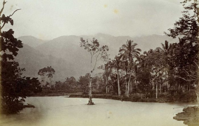 A tree in the middle of the Batang Bangko river at Muaralabuh